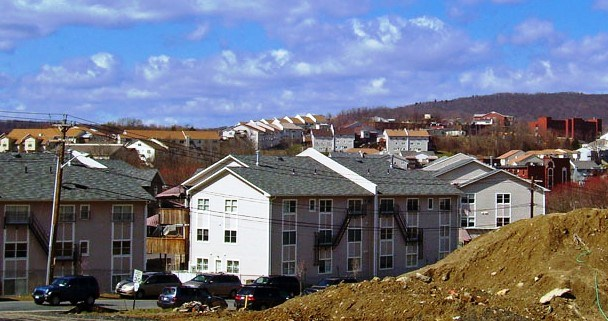 Photographed by Daniel Case 2006-04-04